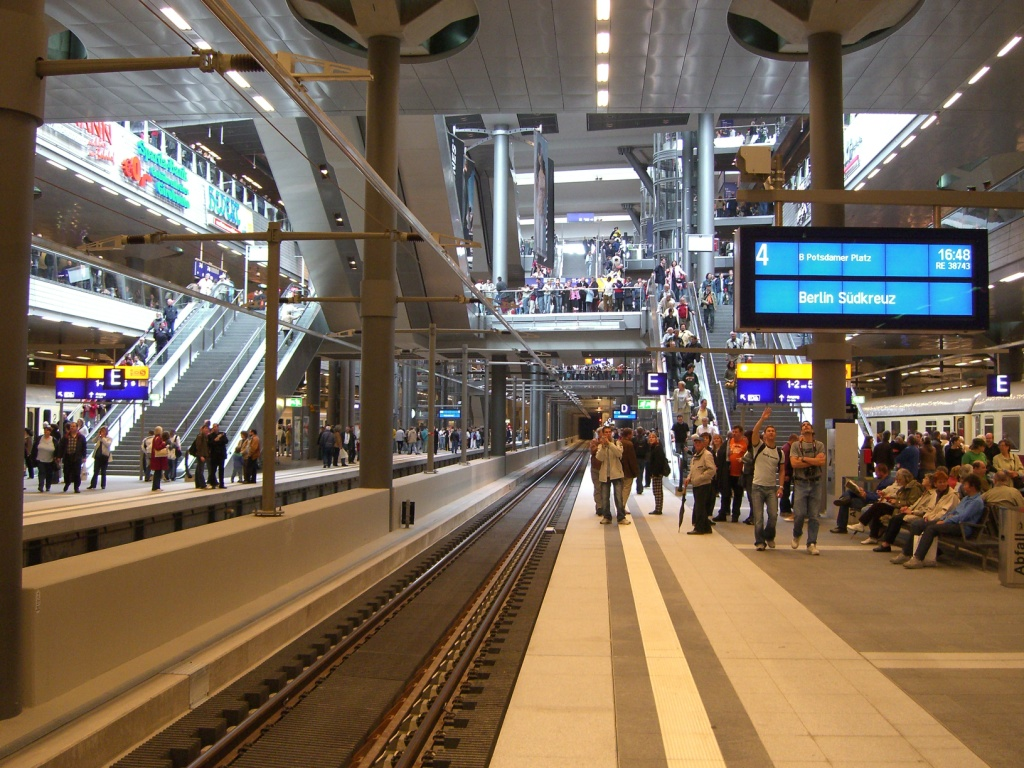 Bottom floor of the Berlin "Hauptbahnhof" (central station); north-south-route